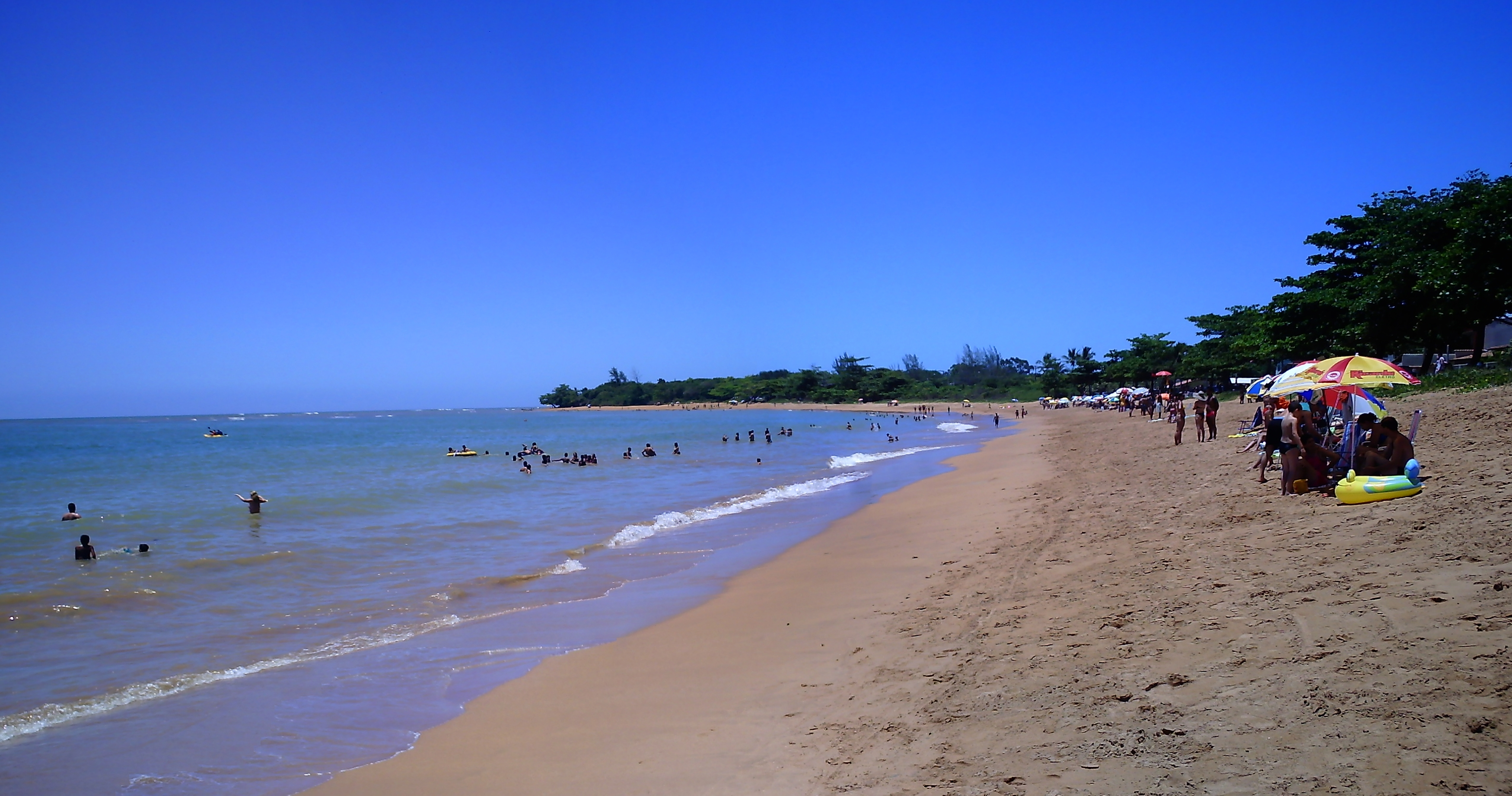 Putiri Beach, Aracruz, Espírito Santo, Brazil